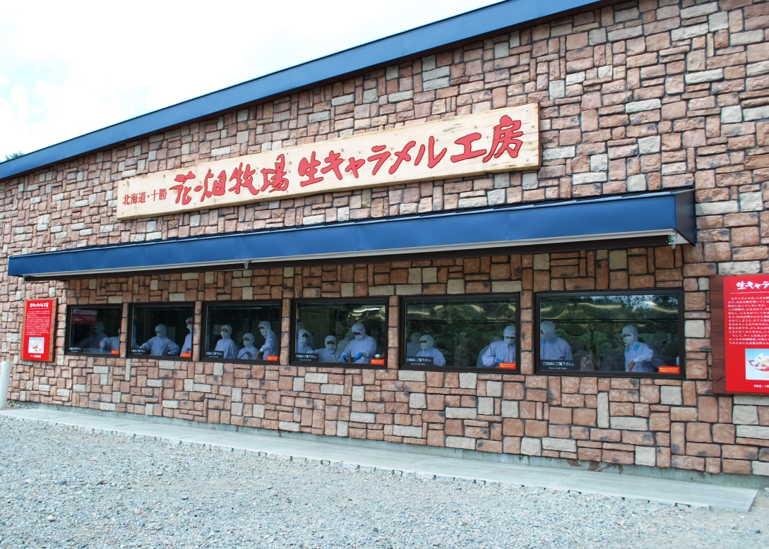 Caramel factory of Hanabatake ranch at Nakasatsunai village